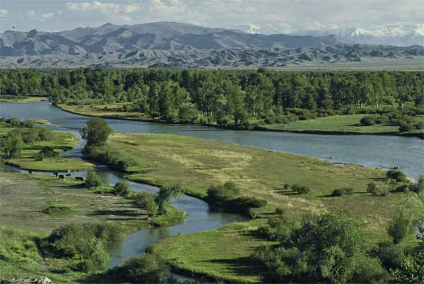 Khovd gol